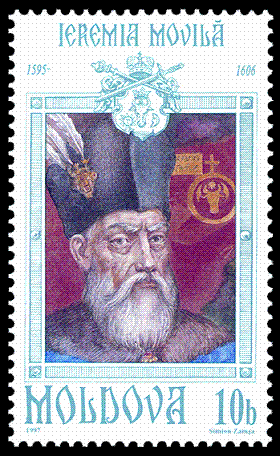 Stamp of Moldova